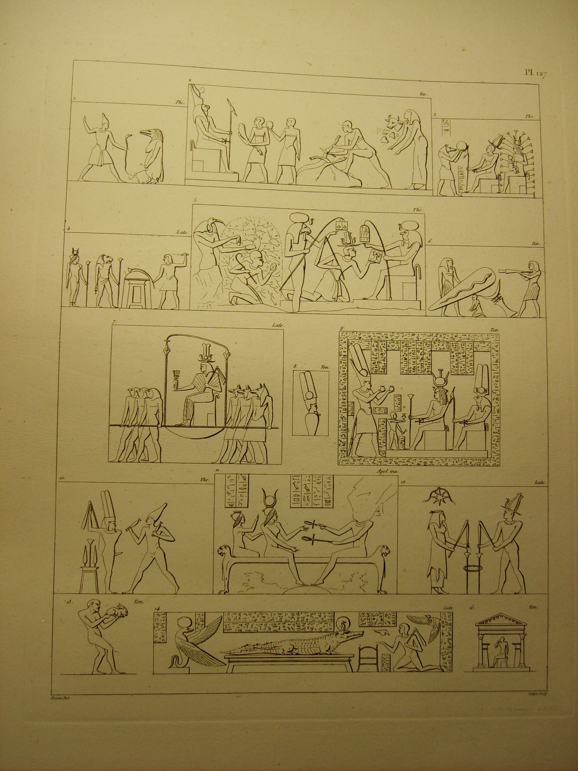 Denon (1802): Voyage dans la haute et la basse Égypte, planche 127. (Reliefs of various temples of Egypt, cf. the original explication)